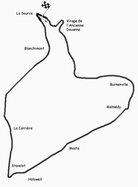 Spa Francorchamps track original layout